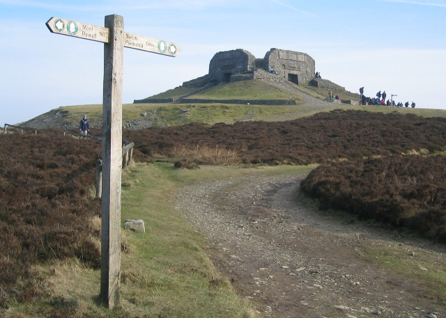 Moel Famau Summit, near to Pentre, Flintshire, Great Britain.A typically busy day on the top of Moel Famau. Offa's Dyke walkers heading south still have a long way to go before they reach Chepstow.